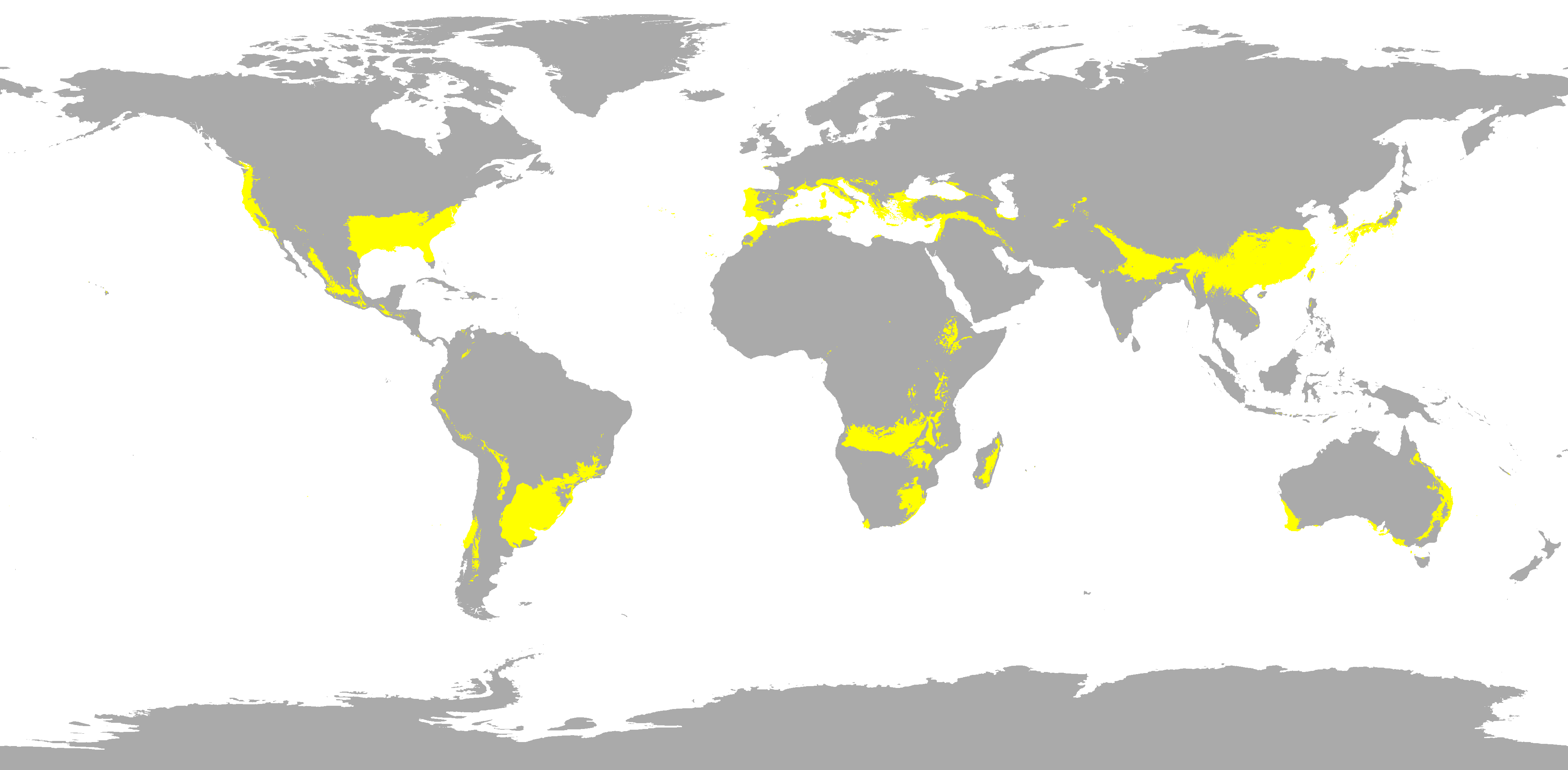 Global subtropical climate according to Köppen climate classification: Mediterranean climate (Csa, Csb), Humid subtropical climate (Cfa, Cwa) and also Subtropical highland variety (Cwb), Subtropical semi-desert/desert variety. And also according to Carl Troll & Karlheinz Paffen climate classification